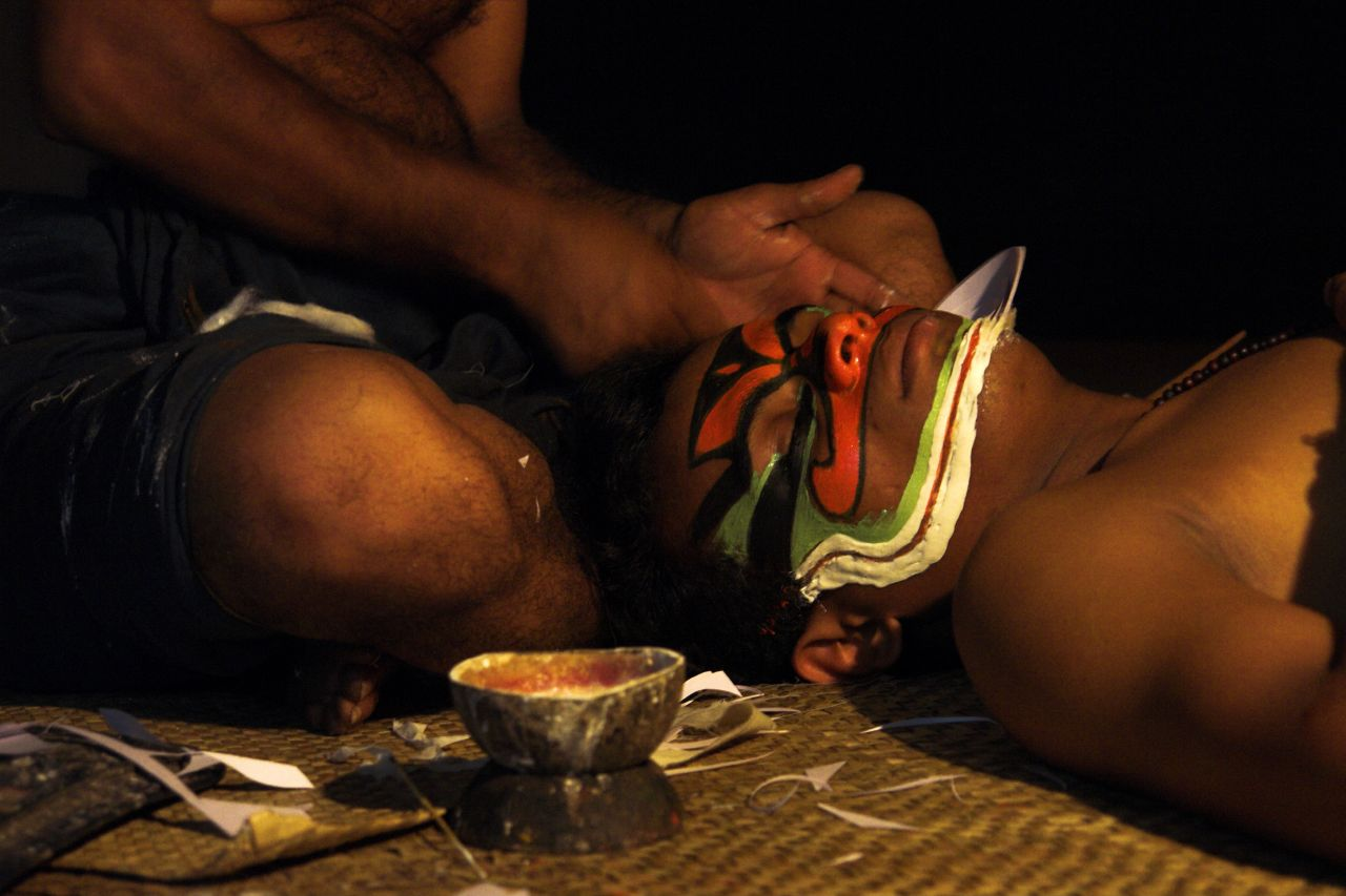 Some of the more complex masks require help from a second person. Die komplexeren Masken werden von einem Maskenbildner fertiggestellt.